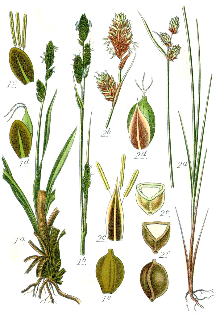 1. FloraWeb.de: Starre Segge, Carex bigelowii subsp. rigida (Raf.) W.Schultze-Motel, syn. Carex rigida Gooden. non Schrank 1789, nom. ill. 2. Carex buxbaumii Wahlenb. Original Caption 1. Starre Segge, Carex rigida 2. Moor-Segge, C. buxbaumii